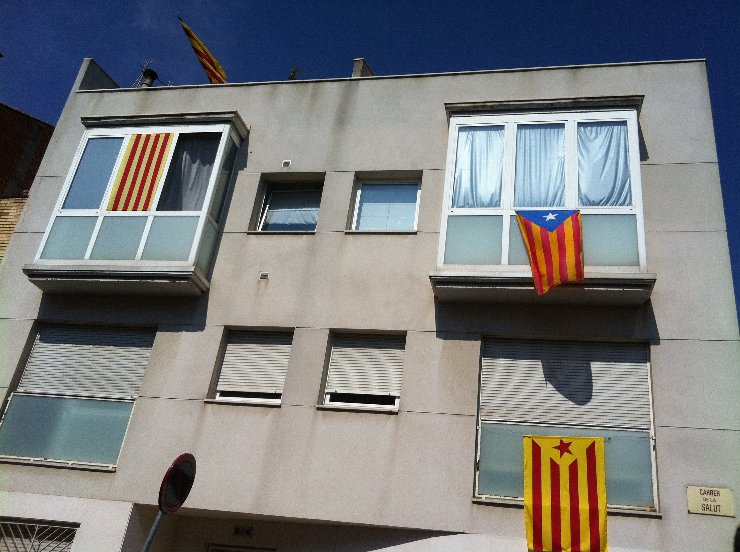 Photographs of Estelades in Sabadell